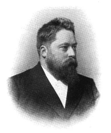 Photograph of Julius Scheiner, the astronomer